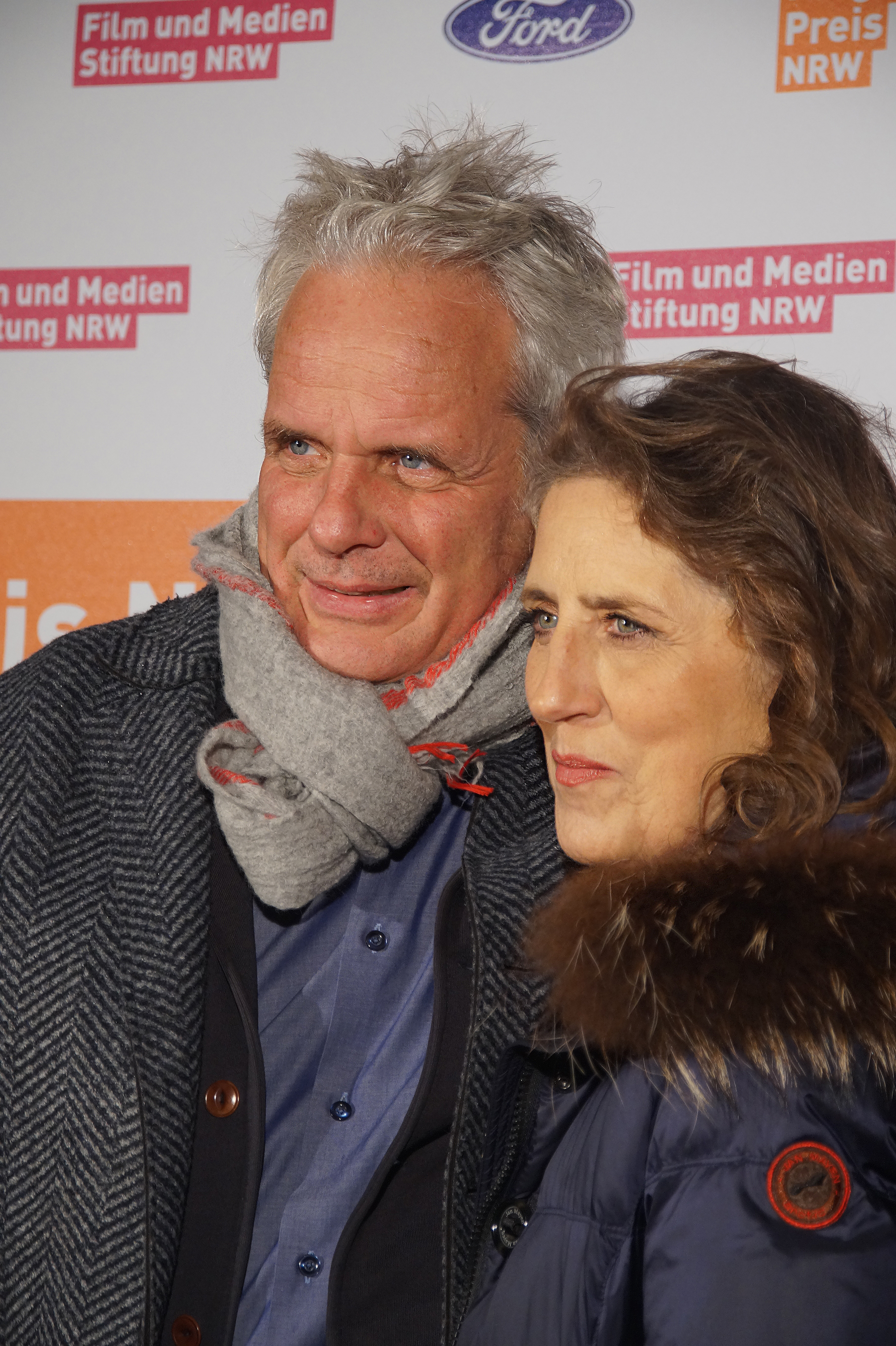 Produzent Thomas Kufus mit Petra Müller beim NRW Kinoprogrammpreis, November 2016, Köln.